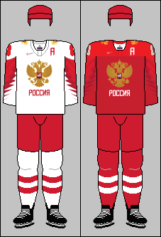 The home and away jerseys of Russia national ice hockey team used from the 2018 IIHF World Championship.